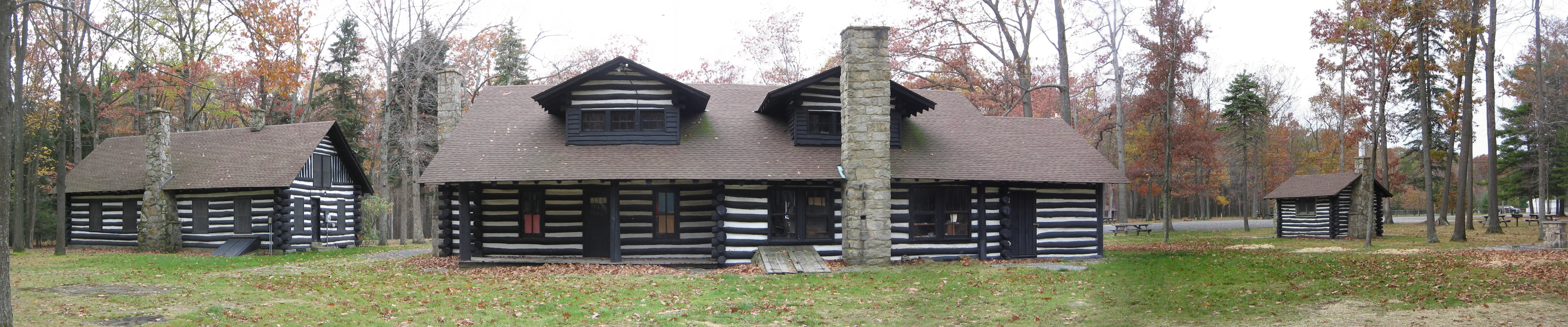 Rear view of CCC-built Headquarters (left), Lodge (center), and Tool Shed (converted log cabin, right) at S.B. Elliott State Park in Pine Township, Clearfield County, Pennsylvania, USA are all listed on the National Register of Historic Places.